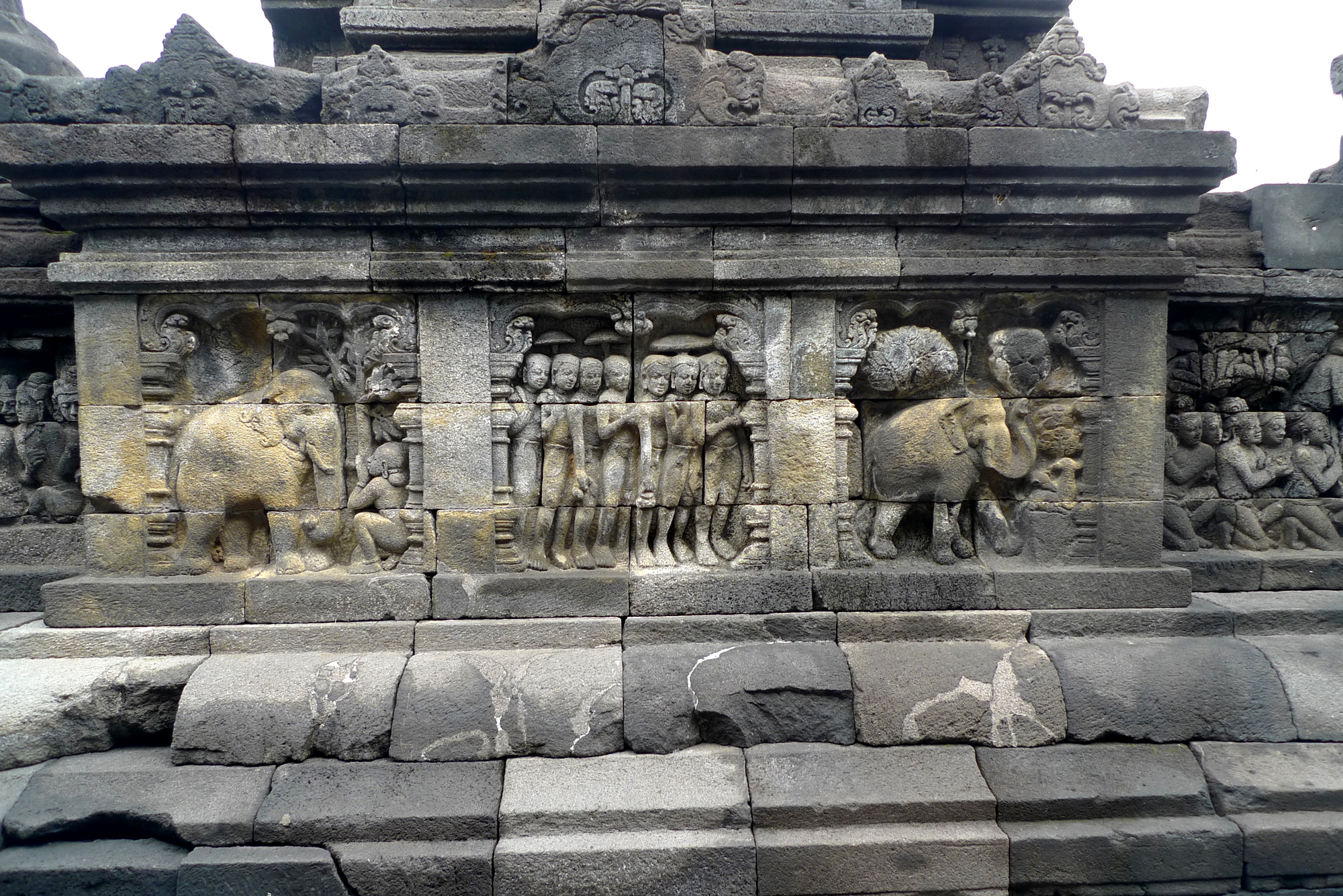 Borobudur relief